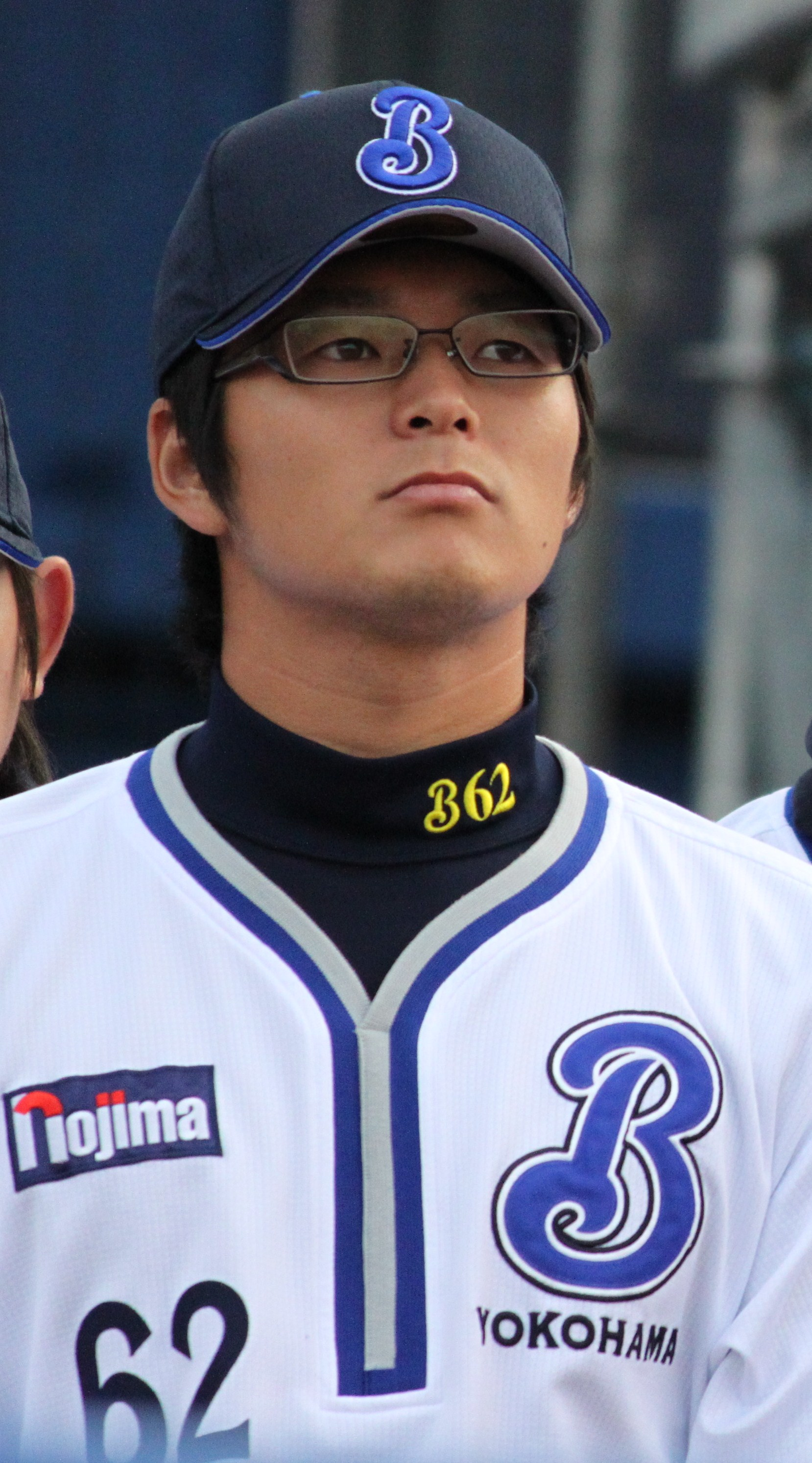 Yuki Takamori, infielder of the Yokohama BayStars, at Yokohama Stadium.